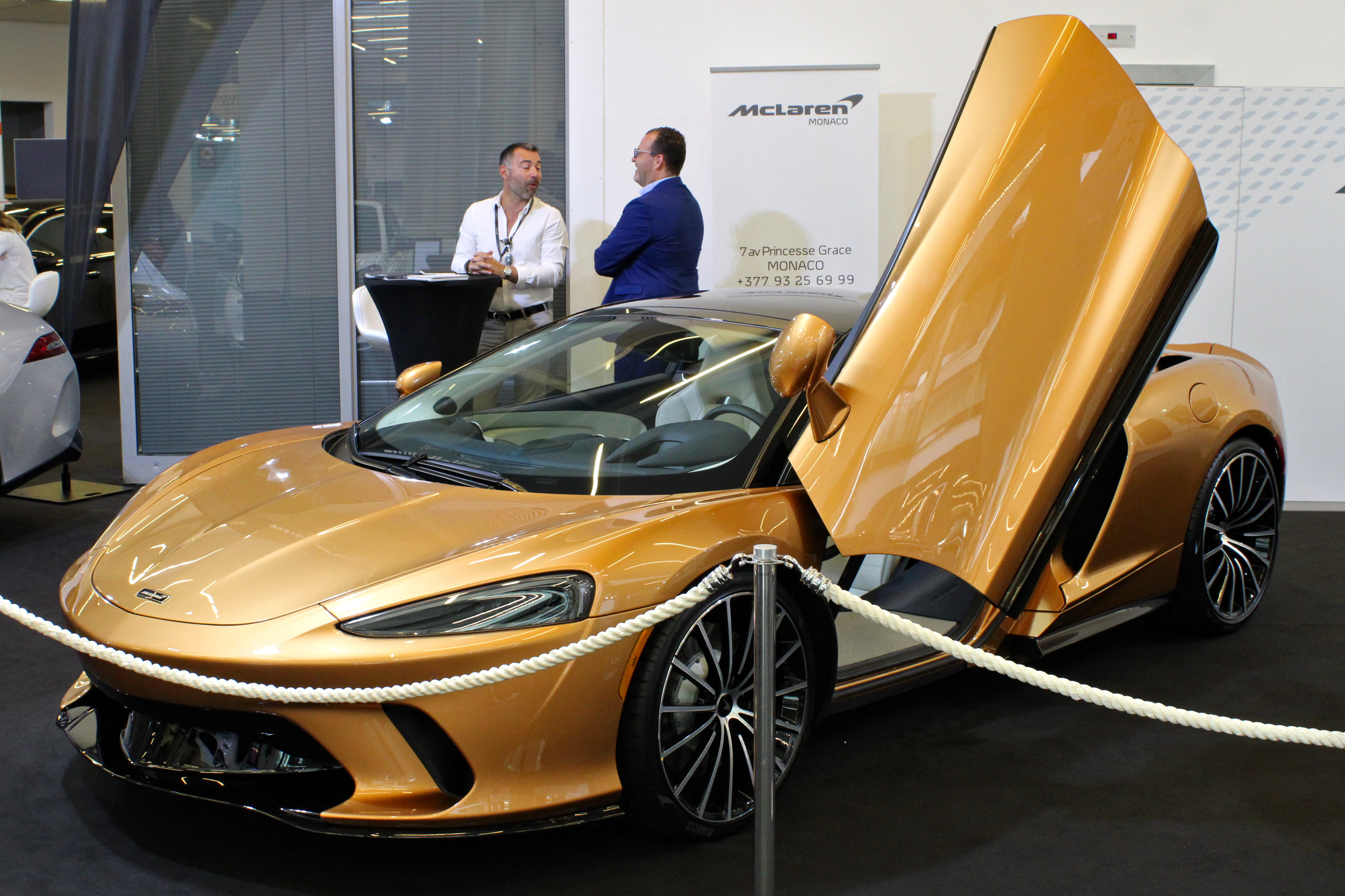 McLaren GT at Top Marques 2019